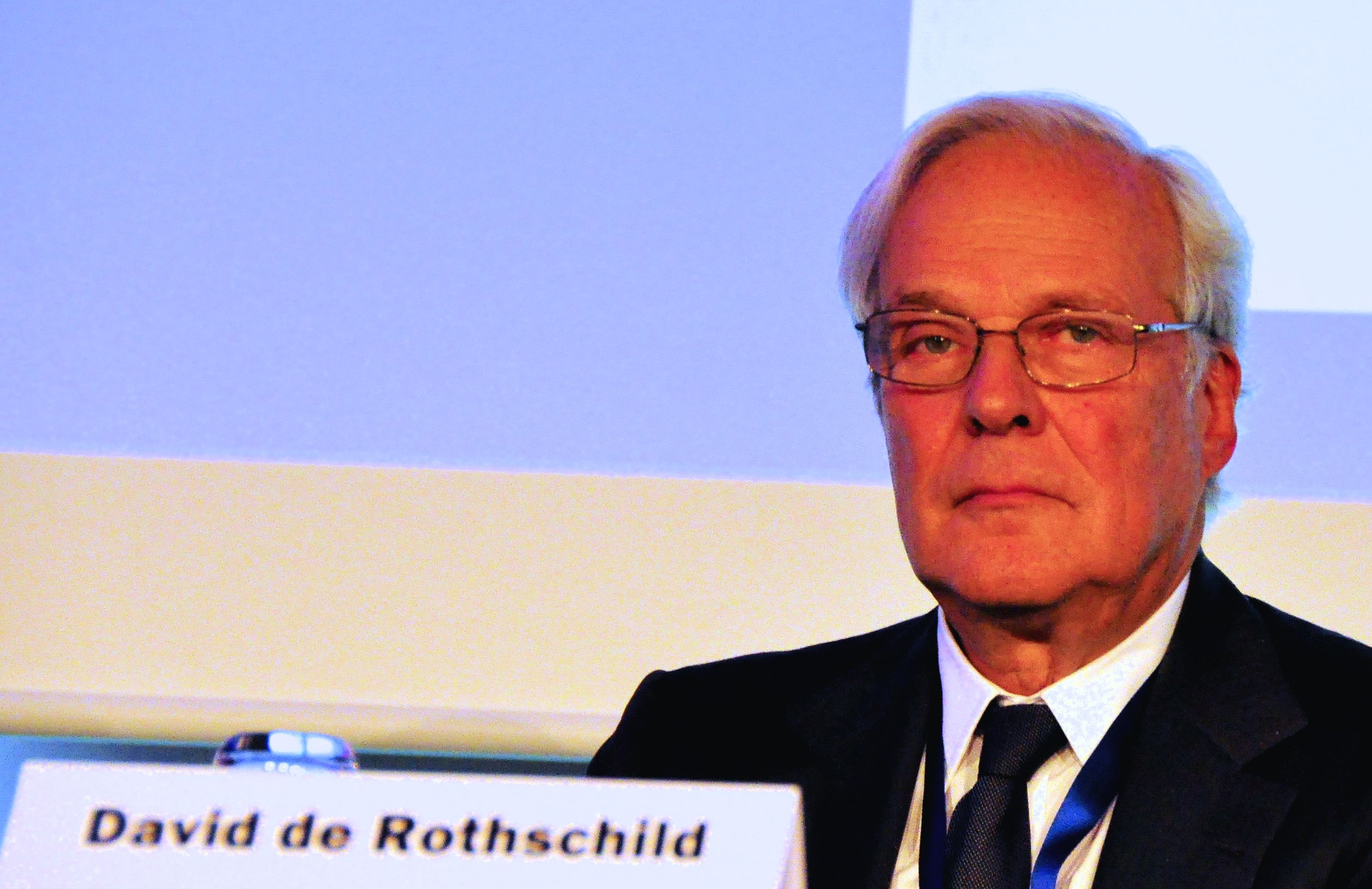 French banker David de Rothschild presides over a meeting of the World Jewish Congress Governing Board in Berlin, September 2014